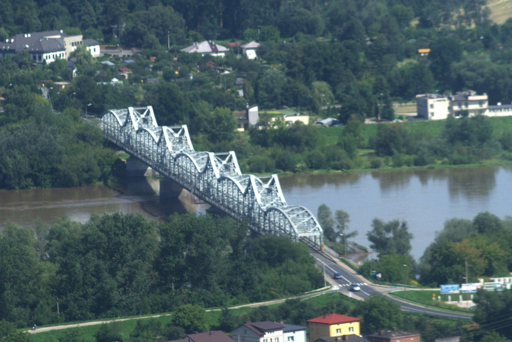 The Ignacy Moscicki Bridge, Vistula River, Pulawy, Poland